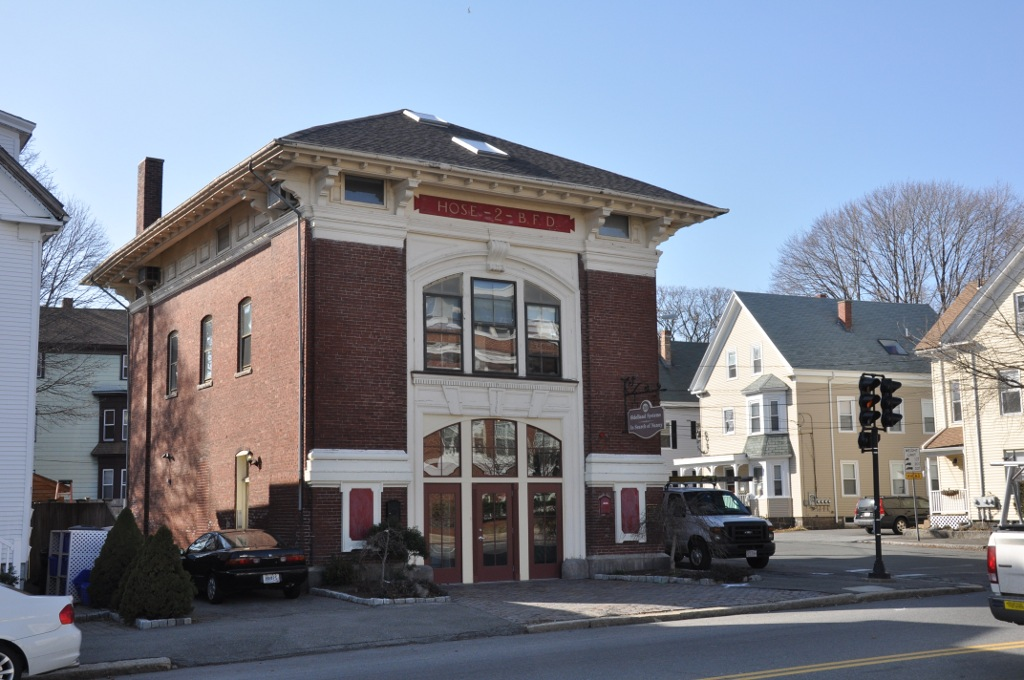 The Hose House No. 2, a former firehouse in Beverly, Massachusetts.